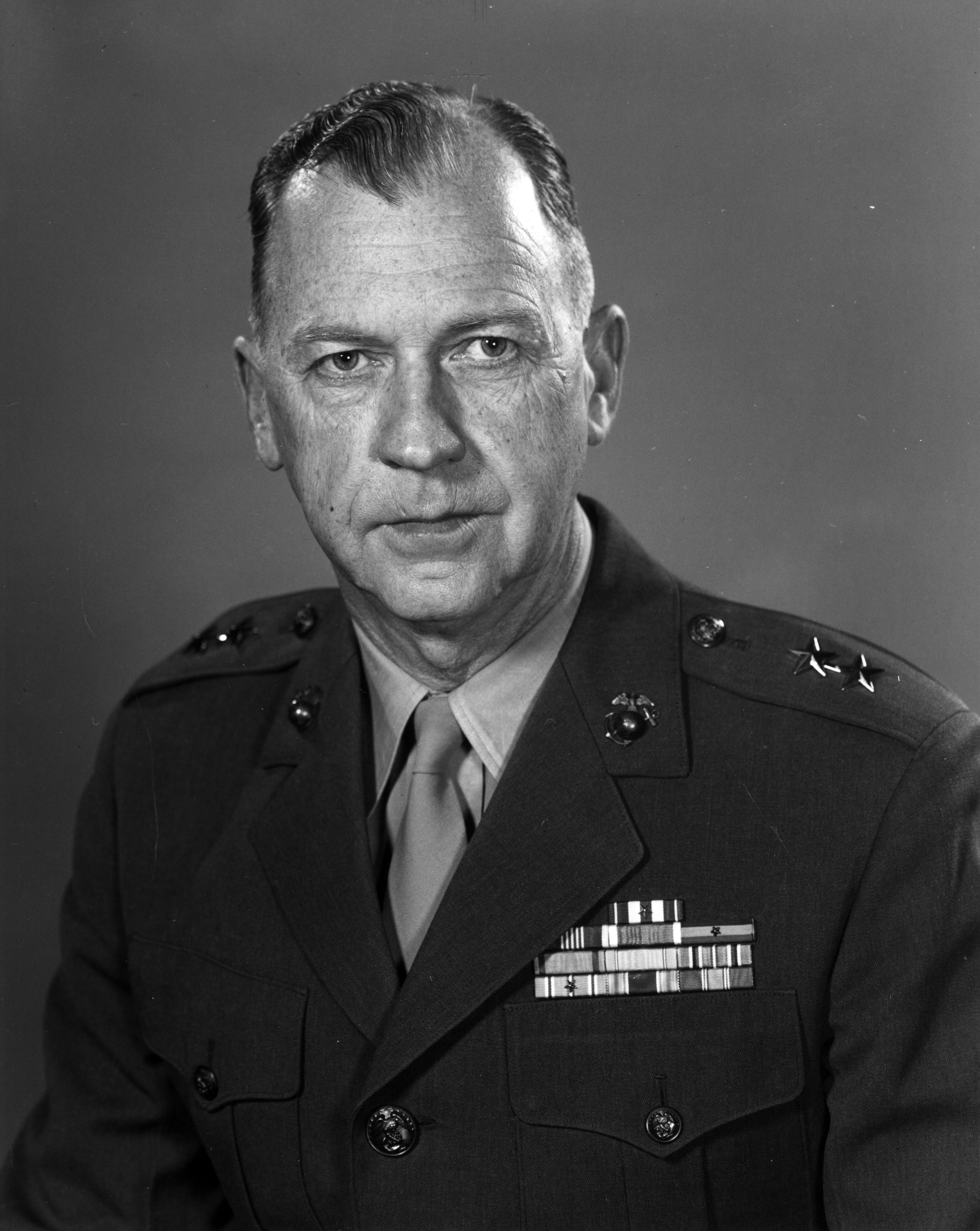 Wood Barbee Kyle (March 3, 1915 - October 25, 2000) was a highly decorated officer of the United States Marine Corps with the rank of Major General. Kyle received two Silver Stars for gallantry in action during Pacific Campaign in World War II. He later took part in Vietnam War and distinguished himself as Commanding general of 3rd Marine Division.